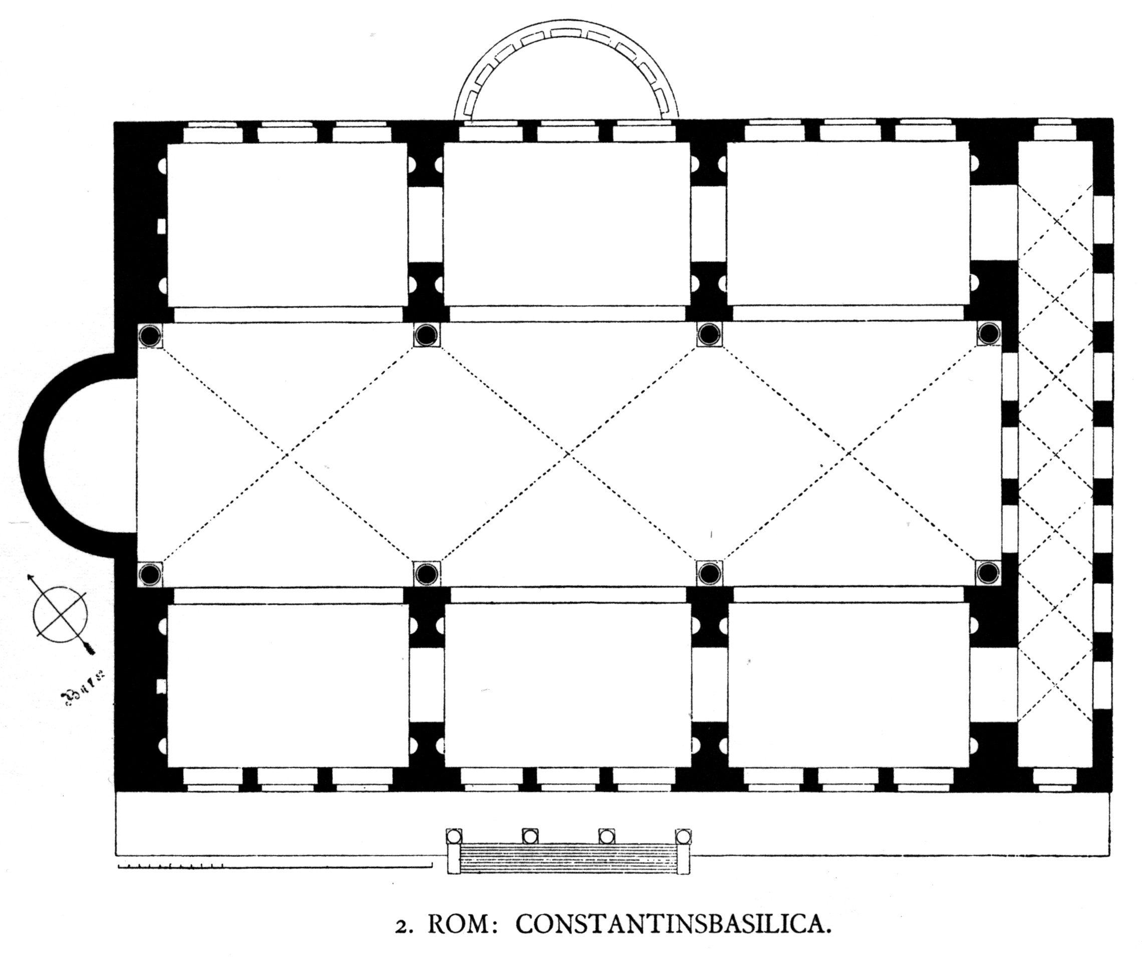 Rome, Basilica of Maxentius (also known as Basilica of Constantine and Basilica Nova). Reconstruction of floor plan.